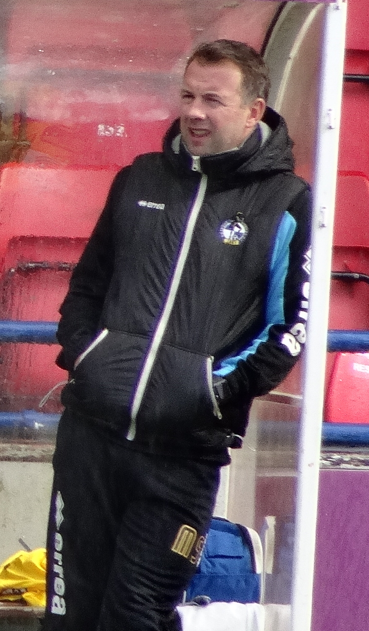 Marcus Stewart during Bristol Rovers' match against York City at Bootham Crescent, York on 30 April 2016